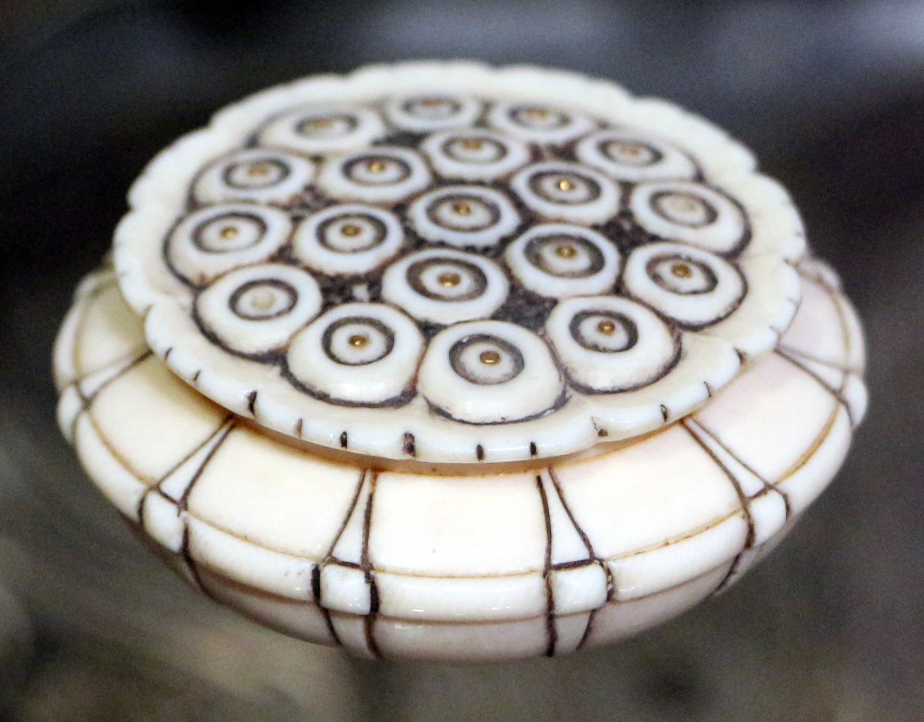 Decorative arts in the Musée d'Orsay